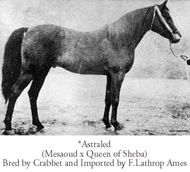 Astraled, stallion bred by Crabbet park, imported to the USA approx 1904, later purchased by W.R. Brown